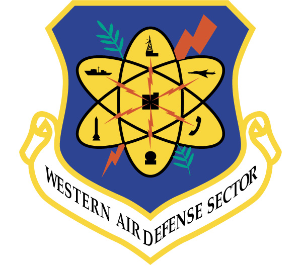 Unit Logo